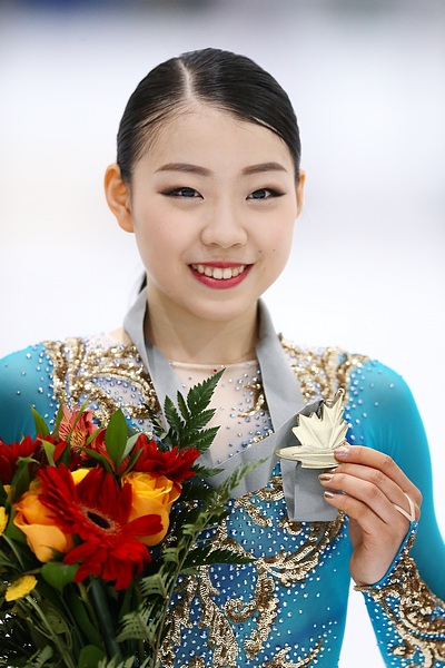 Rika Kihira at the 2019 Autumn Classic International - Awarding ceremony